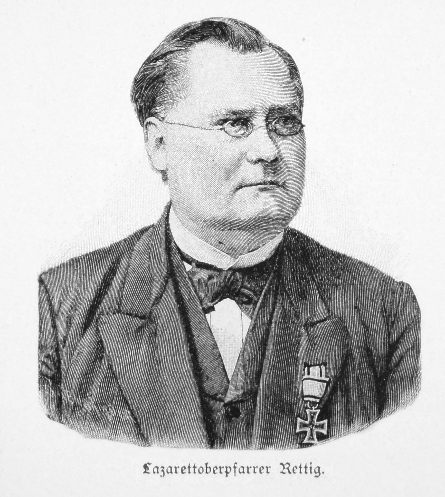 military hospital superior parson Rettig